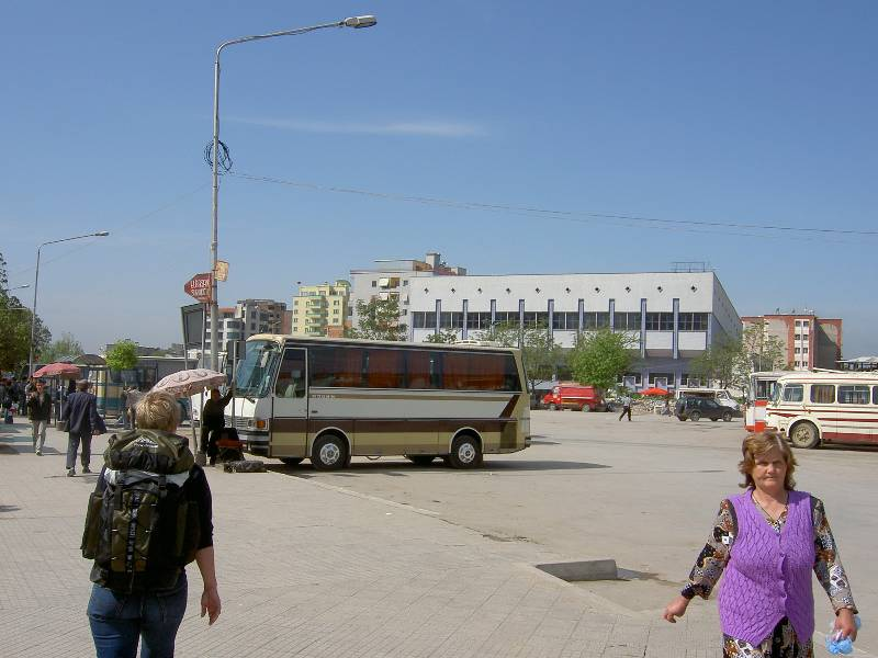 The bus station of Elbasan. The bus in the center of the image is a German-built Kässbohrer-Setra S 80.